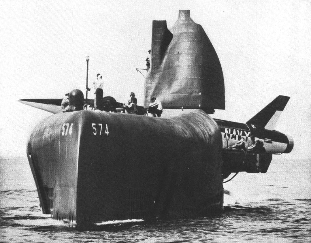 A SSM-N-9 Regulus II missile is readied for launch from the U.S. Navy guided missile submarine USS Grayback (SSG-574), in 1958.